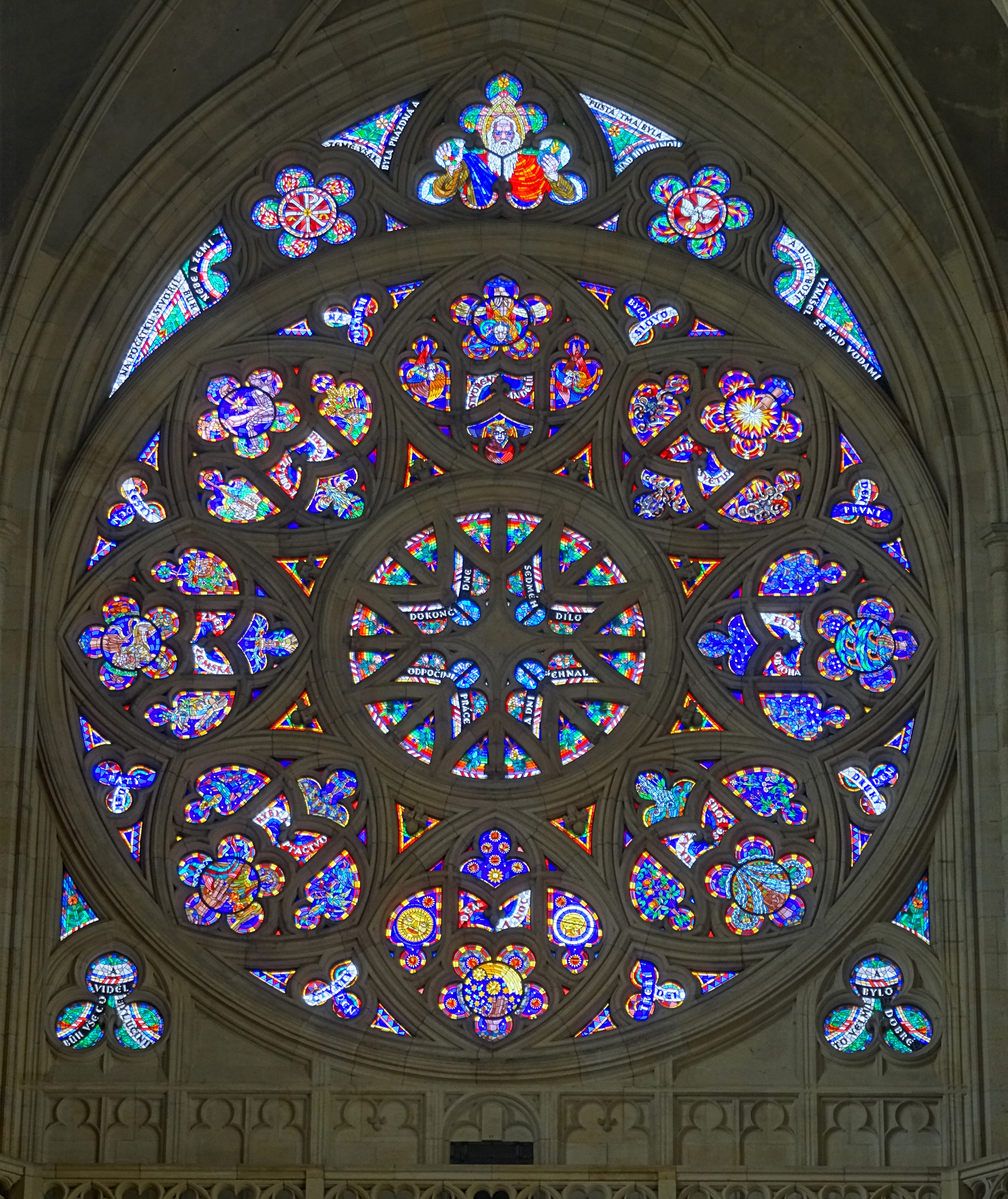 Window rosette „Creation of the World“ over the west portal by František Kysela (1923–1926) after a design by Antonín Podlaha (1920) in Prague's St. Vitus Cathedral